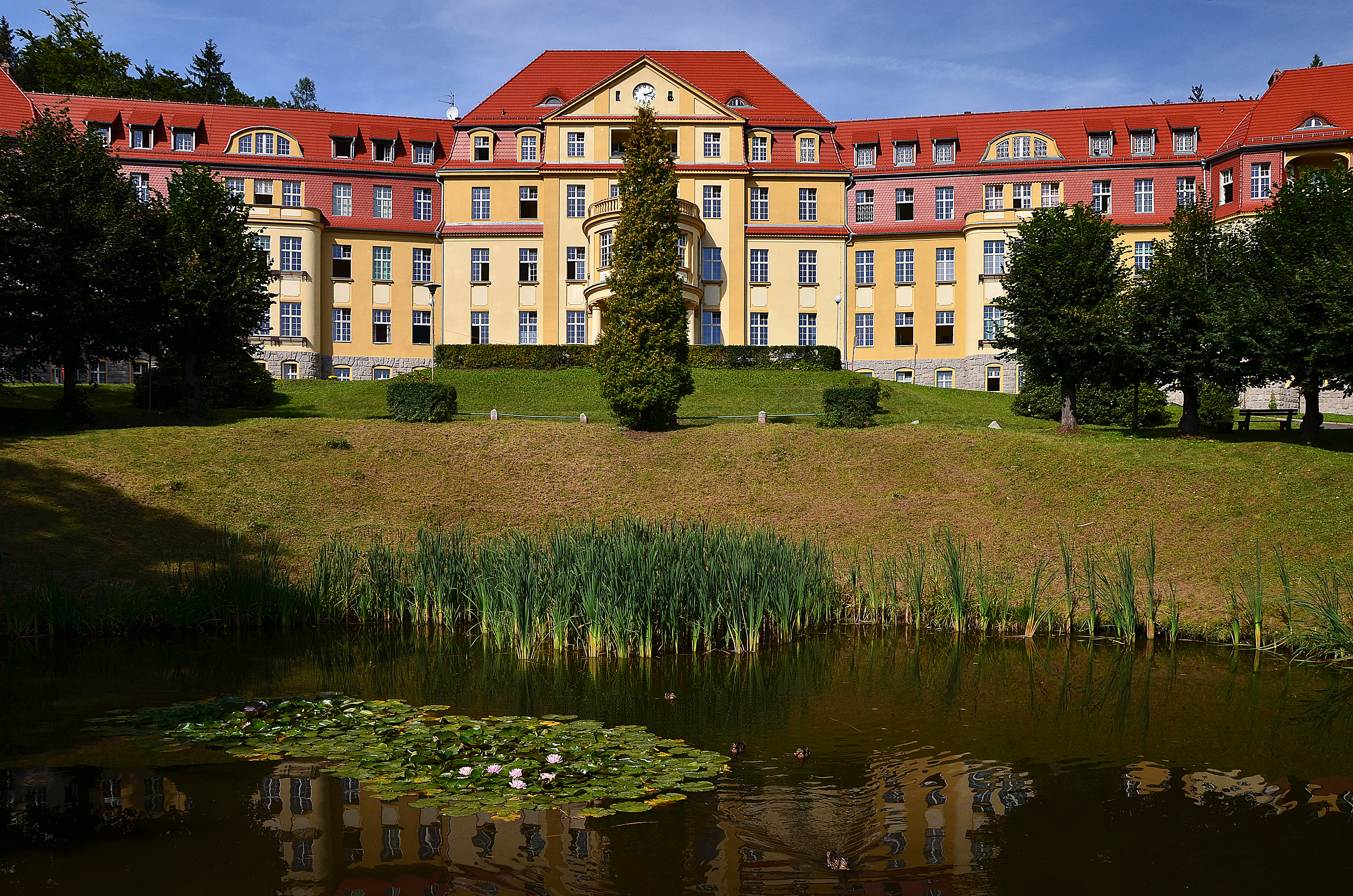 "Bukowiec" hospital. Kowary. Poland.